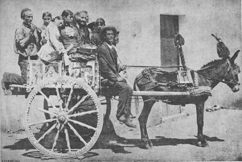 A Sicilian working cart in a picture from 1890.